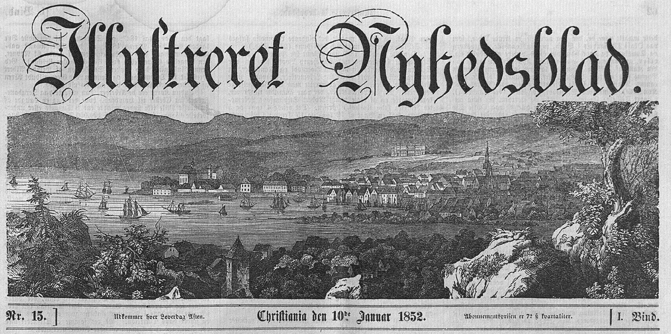 Newspaper masthead of Illustreret Nyhedsblad, no. 15, January 10, 1852